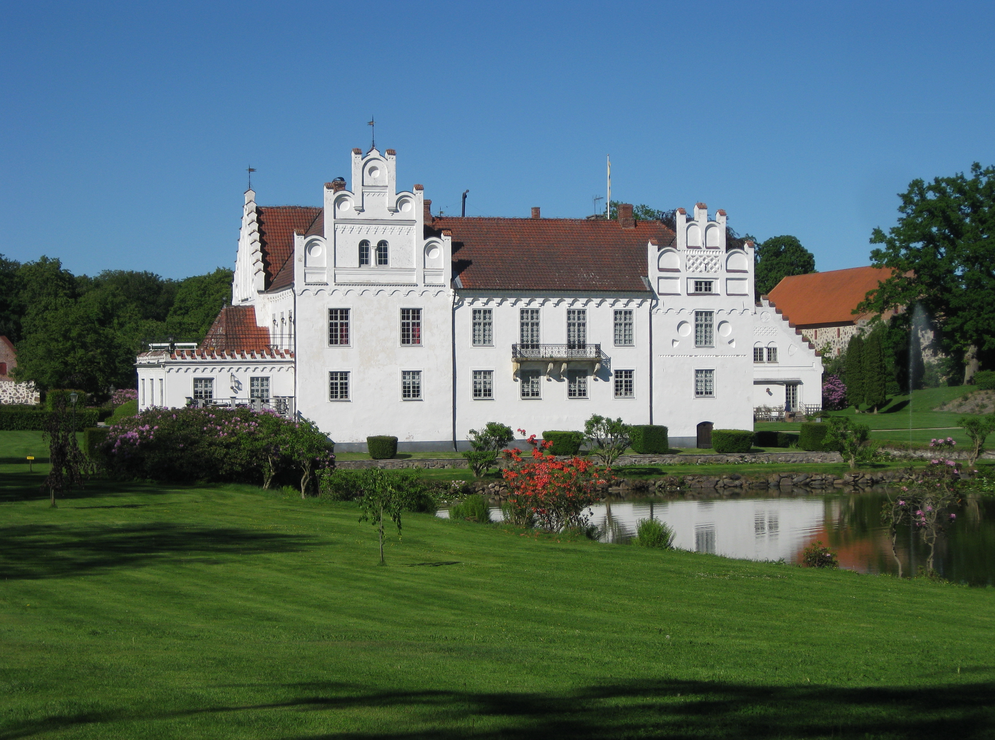 Wanås castle in Skåne, Sweden